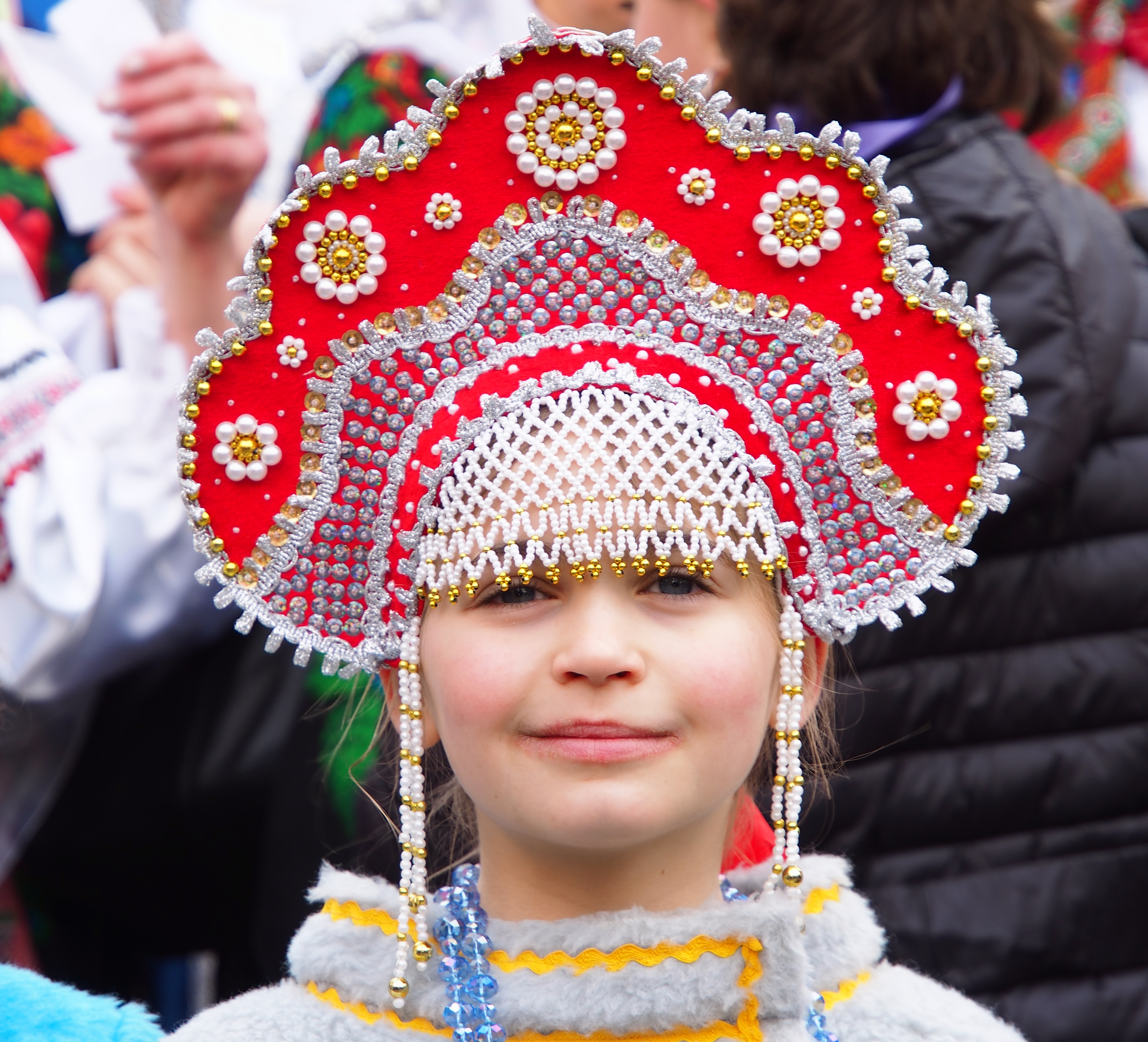 A girl with kokoshnik (type of Russian folklore headdress). Maslenitsa 2015 in Ljubljana, Slovenia.